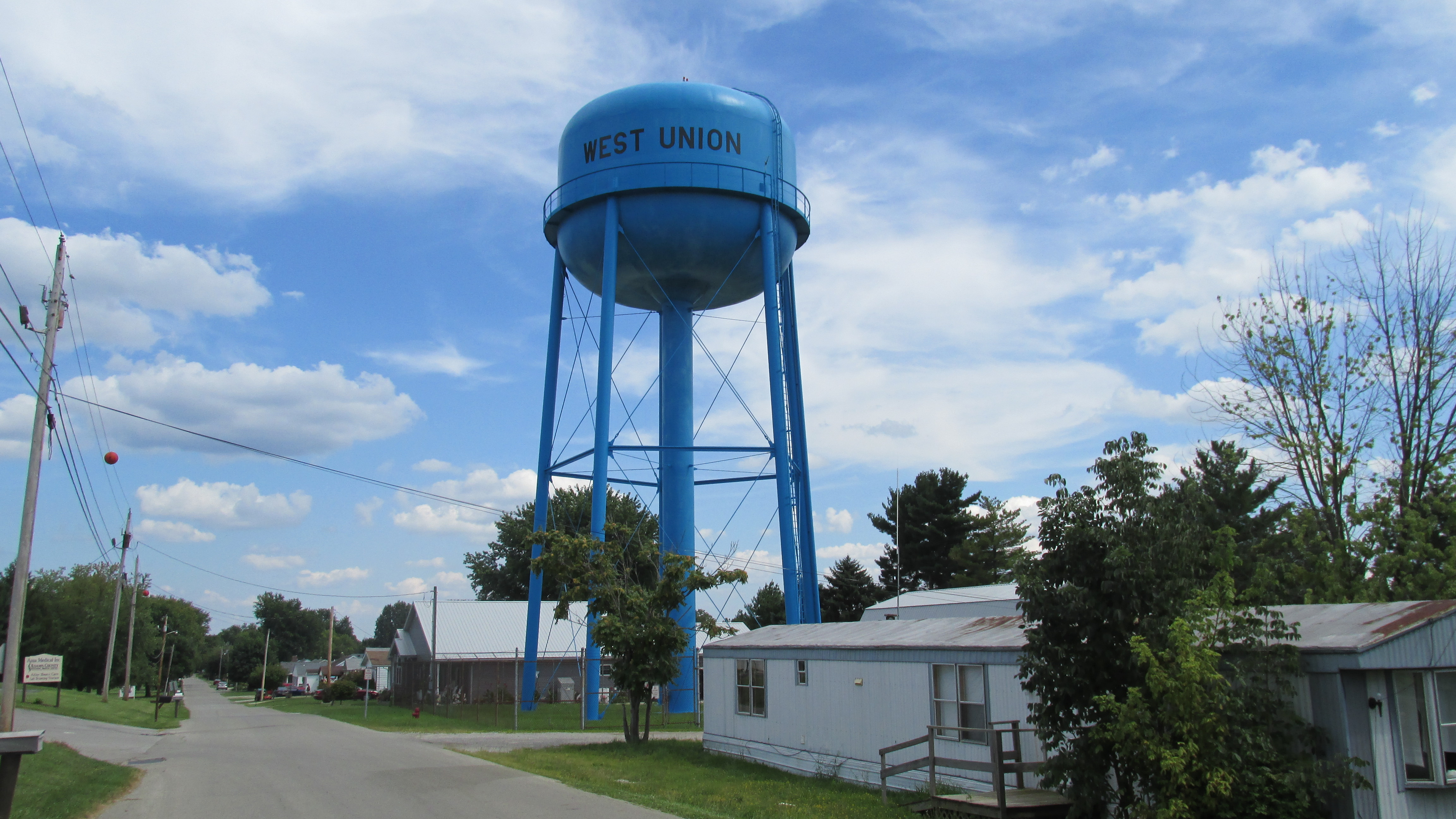 Water tower in West Union, Ohio.